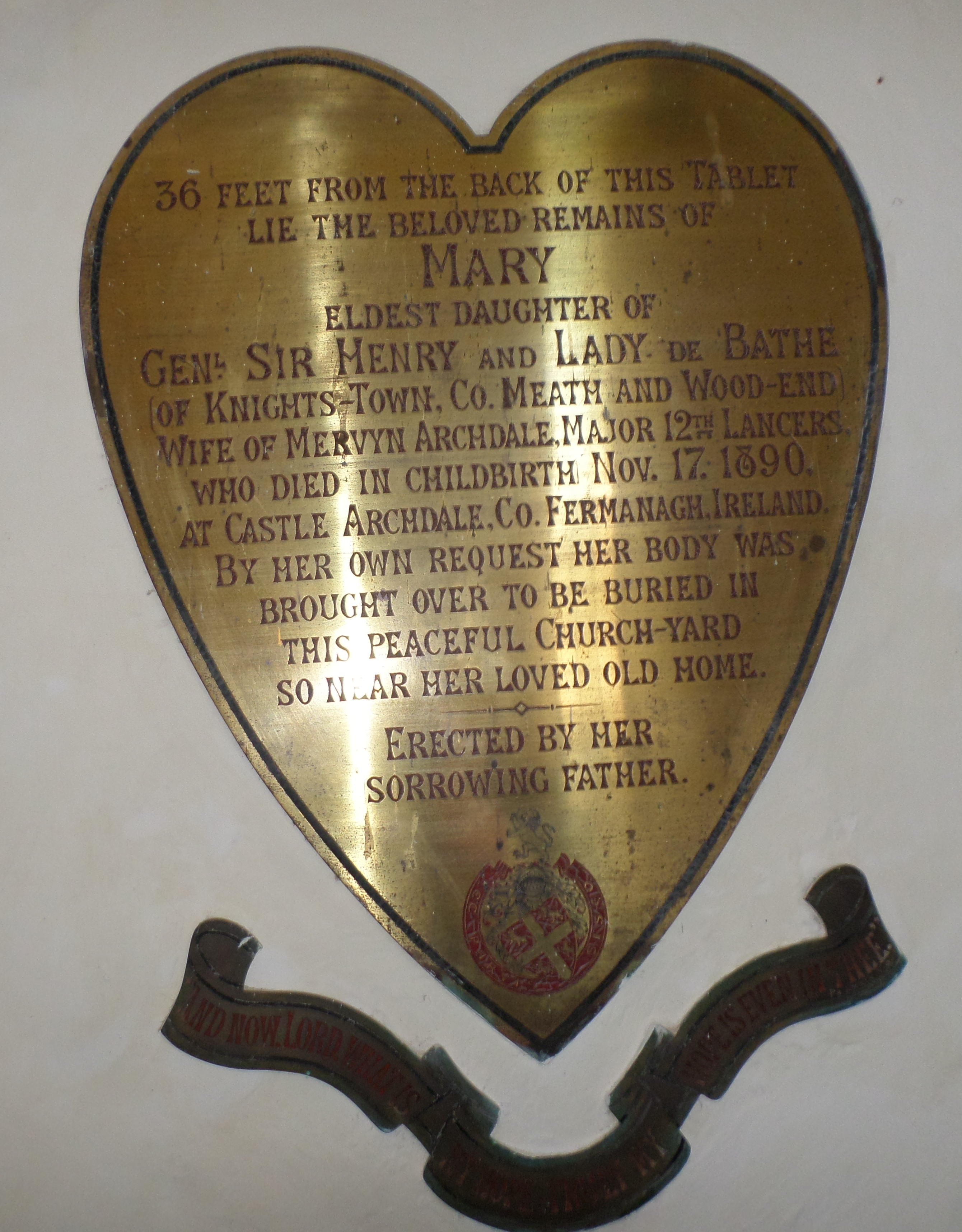 Plaque in St Andrew's Church West Stoke near Chichester West Sussex